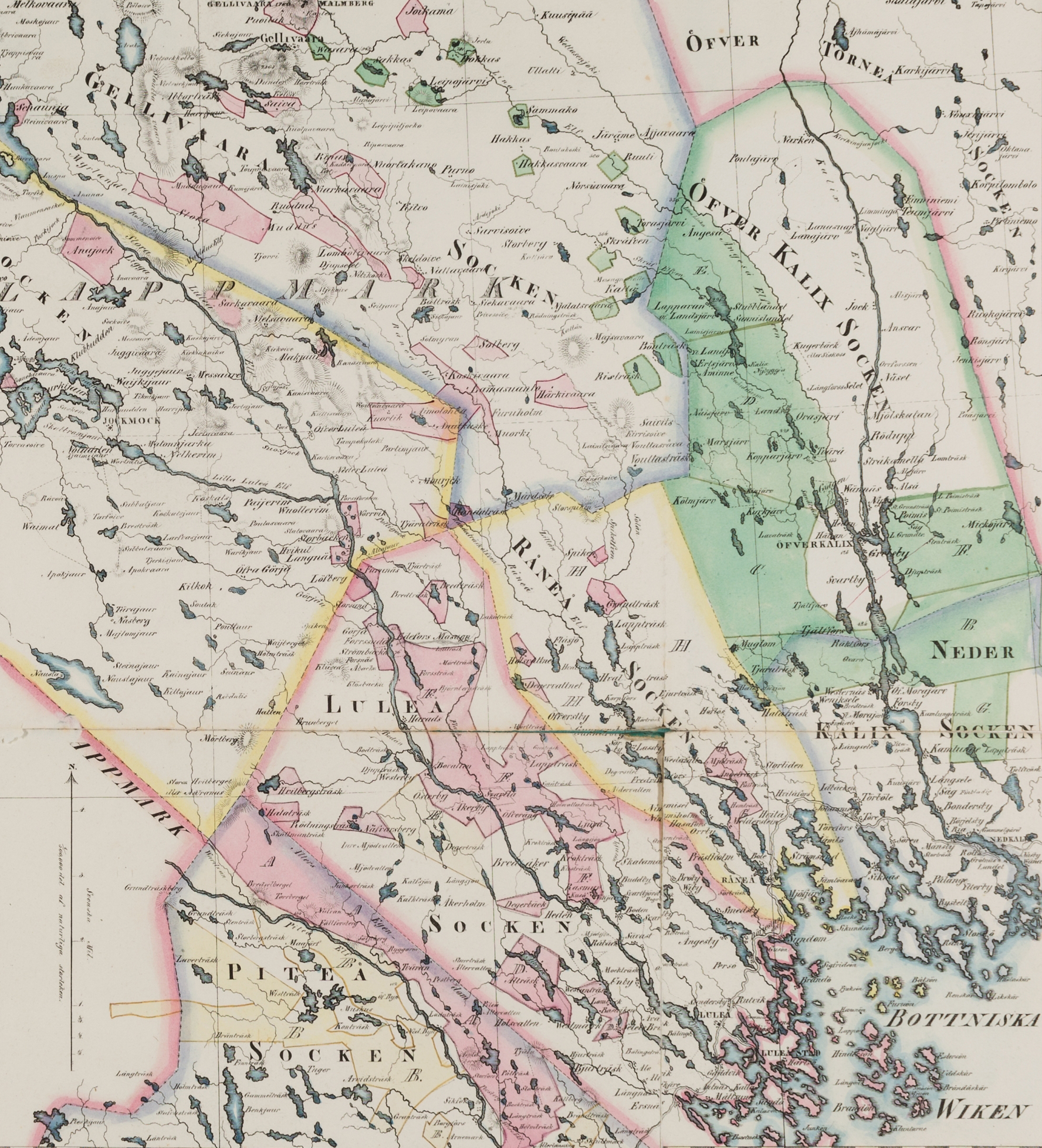 Map of the Gellivare Company's territorial possessions in the eastern part of Norrbotten County, Sweden. The map was published in "Kartor och ritningar över HM Konungens egendomar i Norrbotten och Luleå Lappmark," by Franz von Scheele 1828.